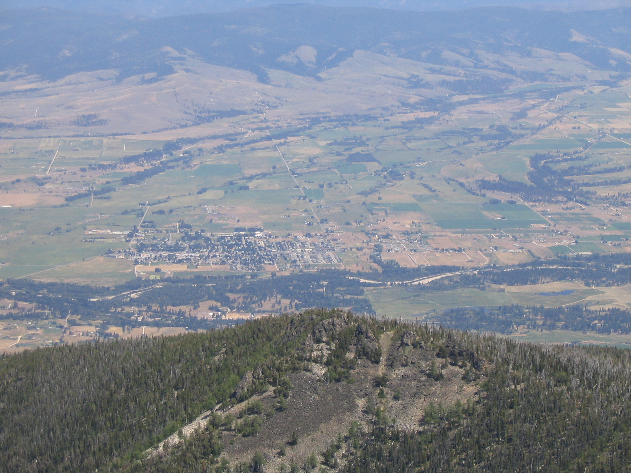 View of the town of Stevensville, the Bitterroot River, and the Bitterroot Valley — from St. Mary's Peak in the Bitterroot Mountains Range. Located in the Bitterroot National Forest, Ravalli County, Montana.